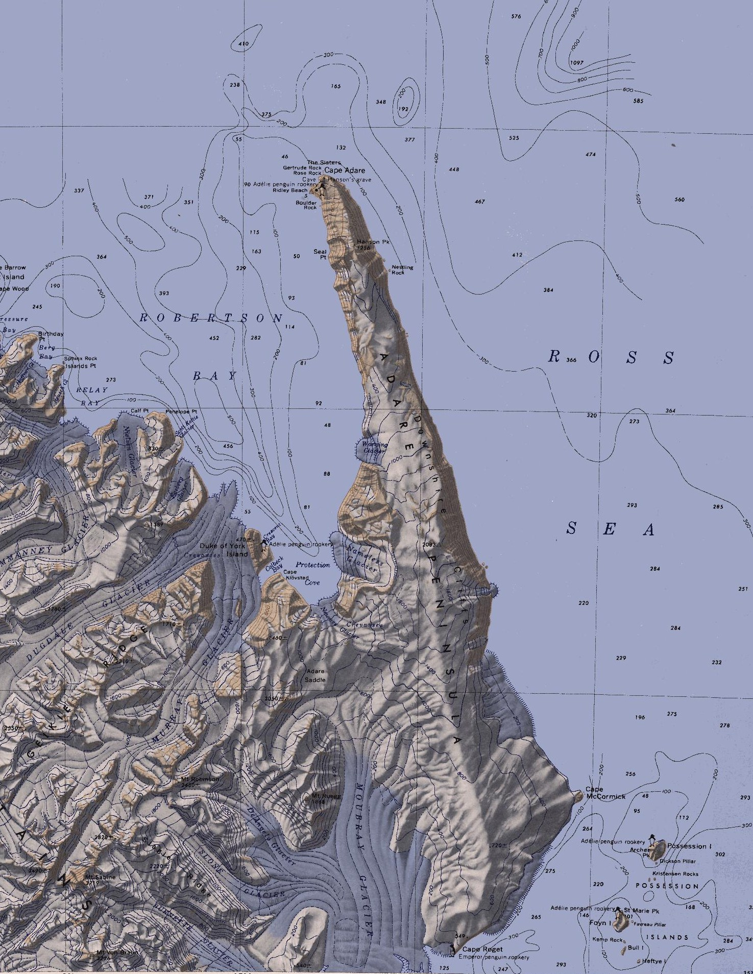 Map of the Adare Peninsula west of the Ross Sea.